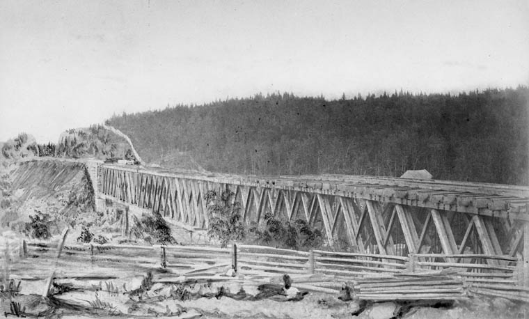 Intercolonial Railway. Bridge at Riviere du Loup